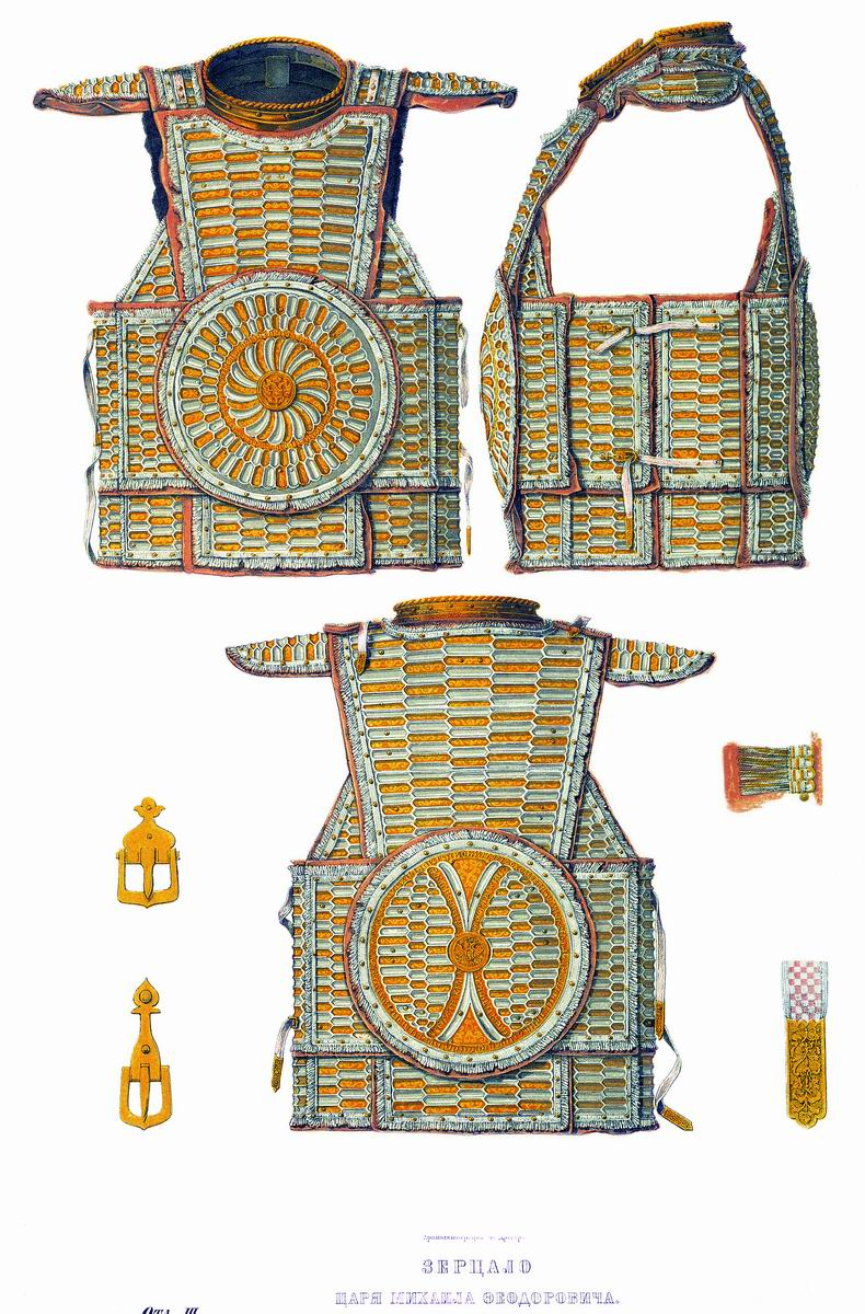 Mirror armour (zertsalo) of Mikhail I Fyodorovich Romanov. Russia, 1616.